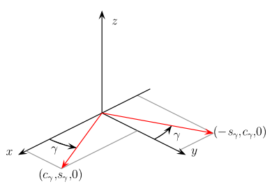 PNG version of the incorrectly converted SVG image with the same name